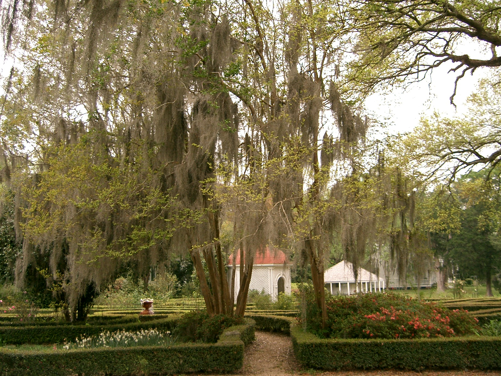 spanish moss in Louisiana self made PRA